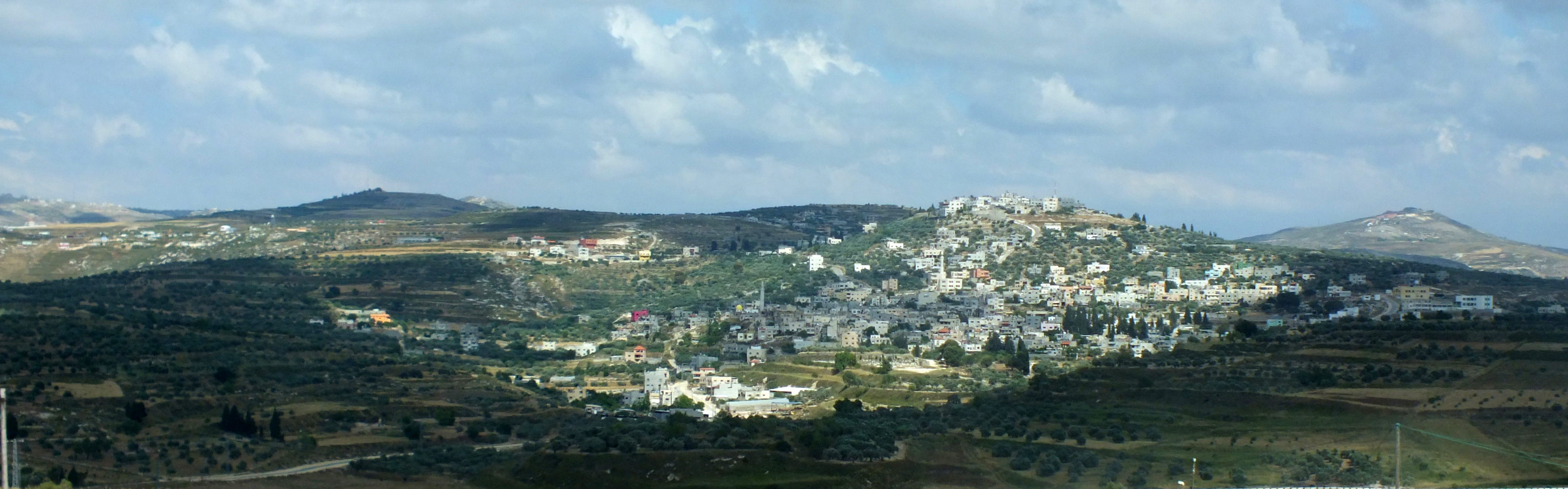 About a halfway between Nablus and Qalqilya, out-there in the Palestinian territories: Who can identify this village?